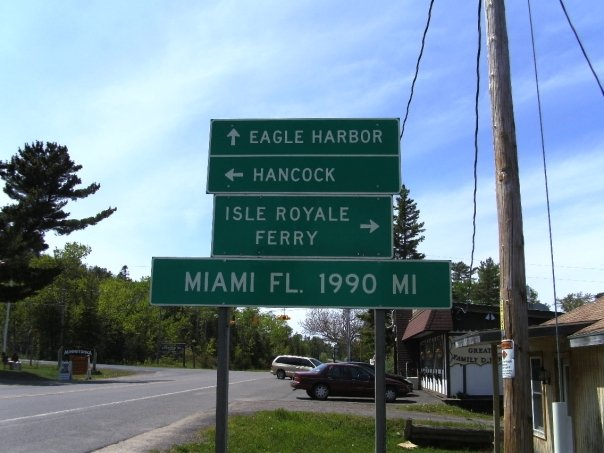 A mileage sign in Copper Harbor, Michigan, showing the distance to Miami, Florida along U.S. Route 41.